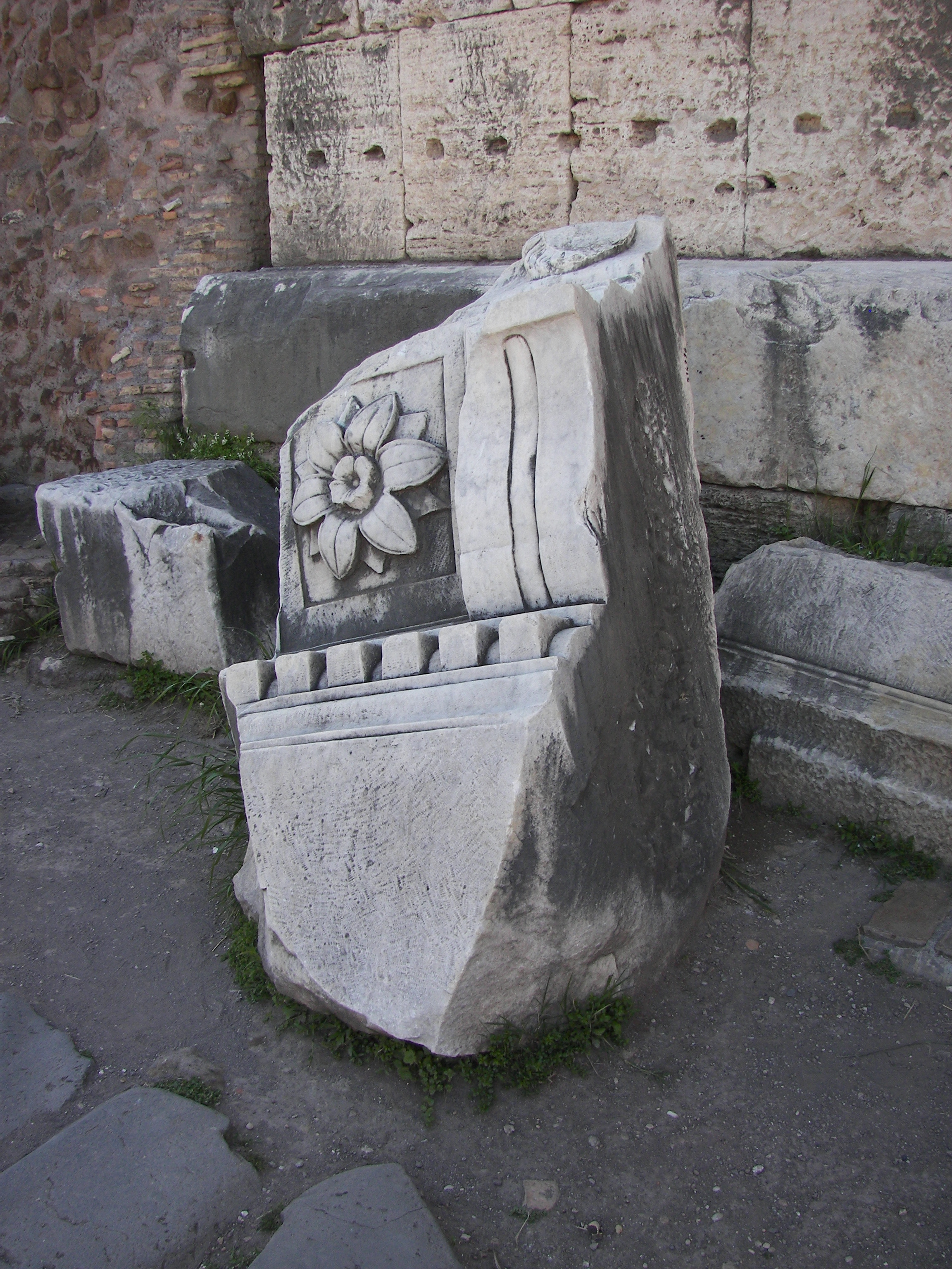 Close-up of fallen frieze/cornice of the Temple of Saturn in the Forum Romanum.